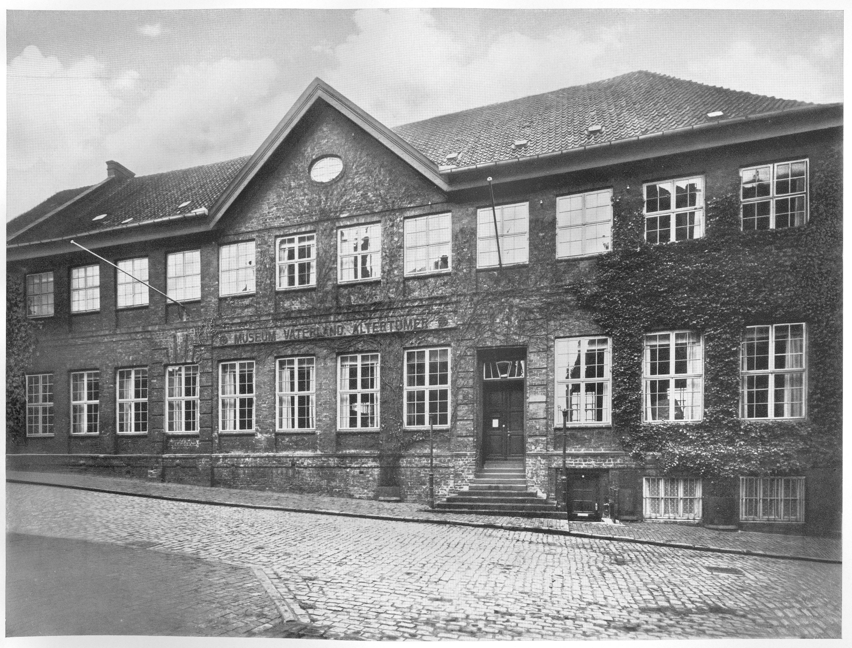 Museum für Vaterländische Altertümer in Kiel, Germany. View on the historic building at the Falckstraße 21 in the 1930s.